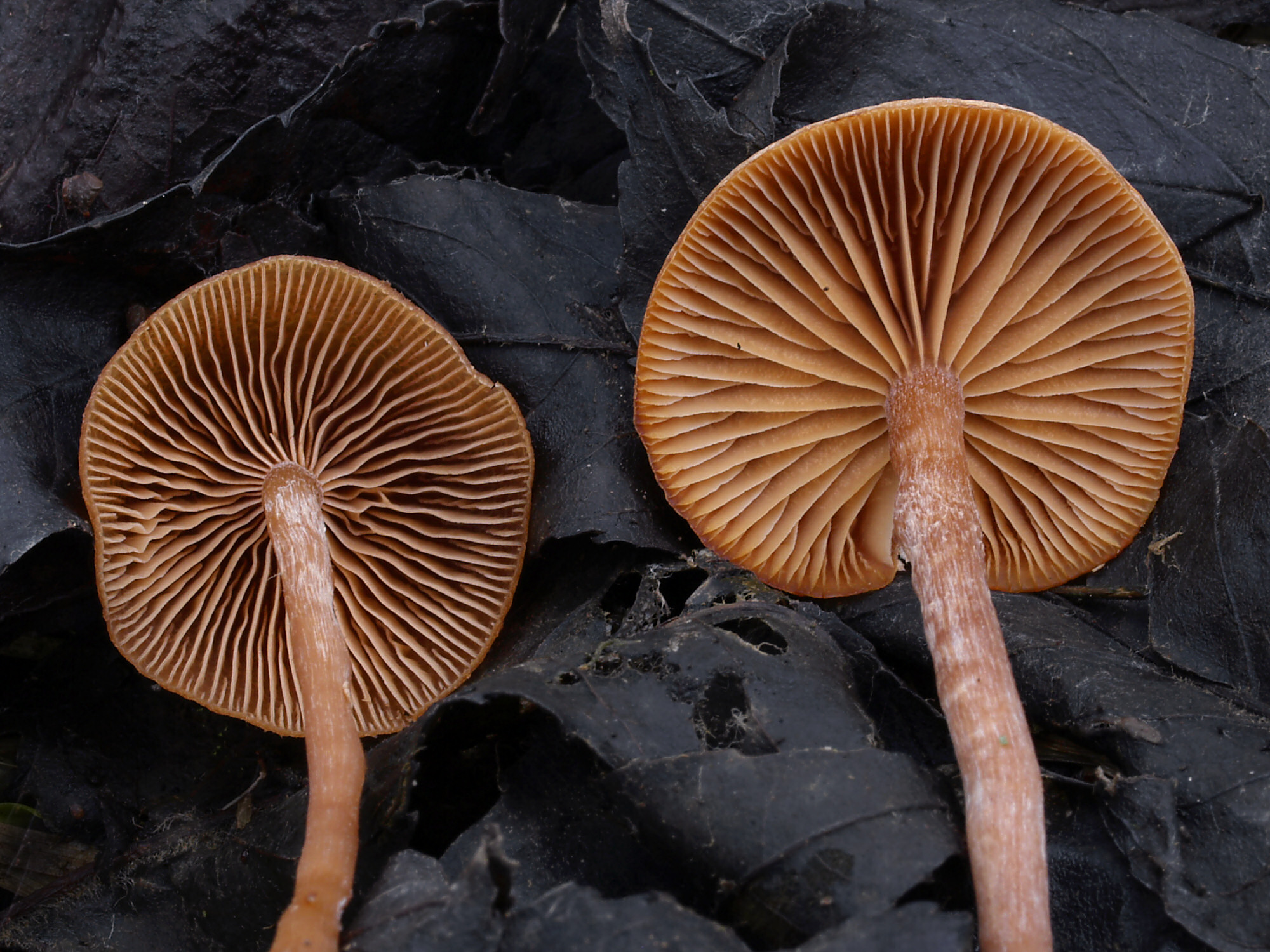 Scurfy Twiglet (Tubaria furfuracea)